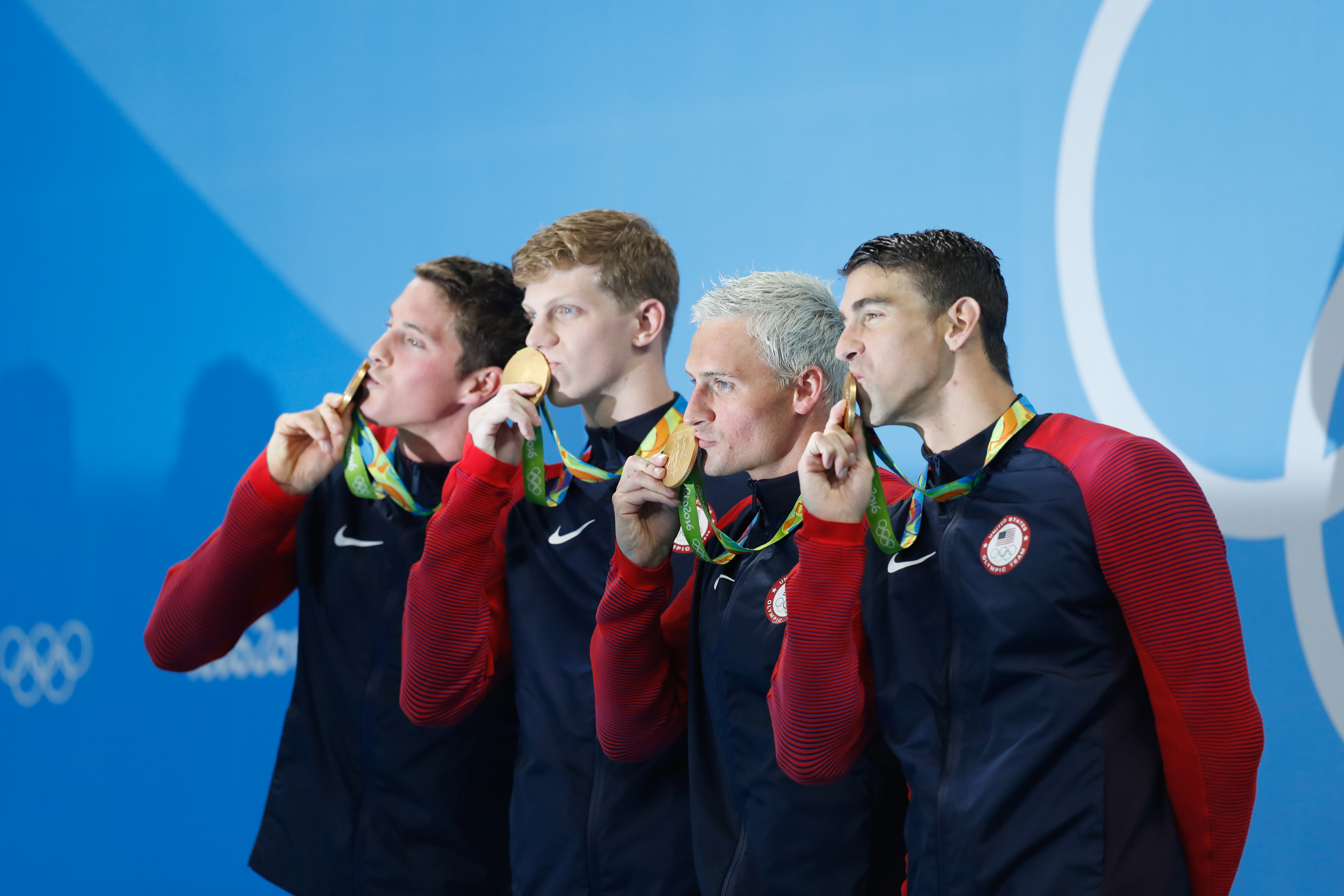 Rio de Janeiro - Equipe norte-americana com Michael Phelps ganha ouro no revezamento 4 por 200m, nos Jogos Rio 2016. (Fernando Frazão/Agência Brasil)